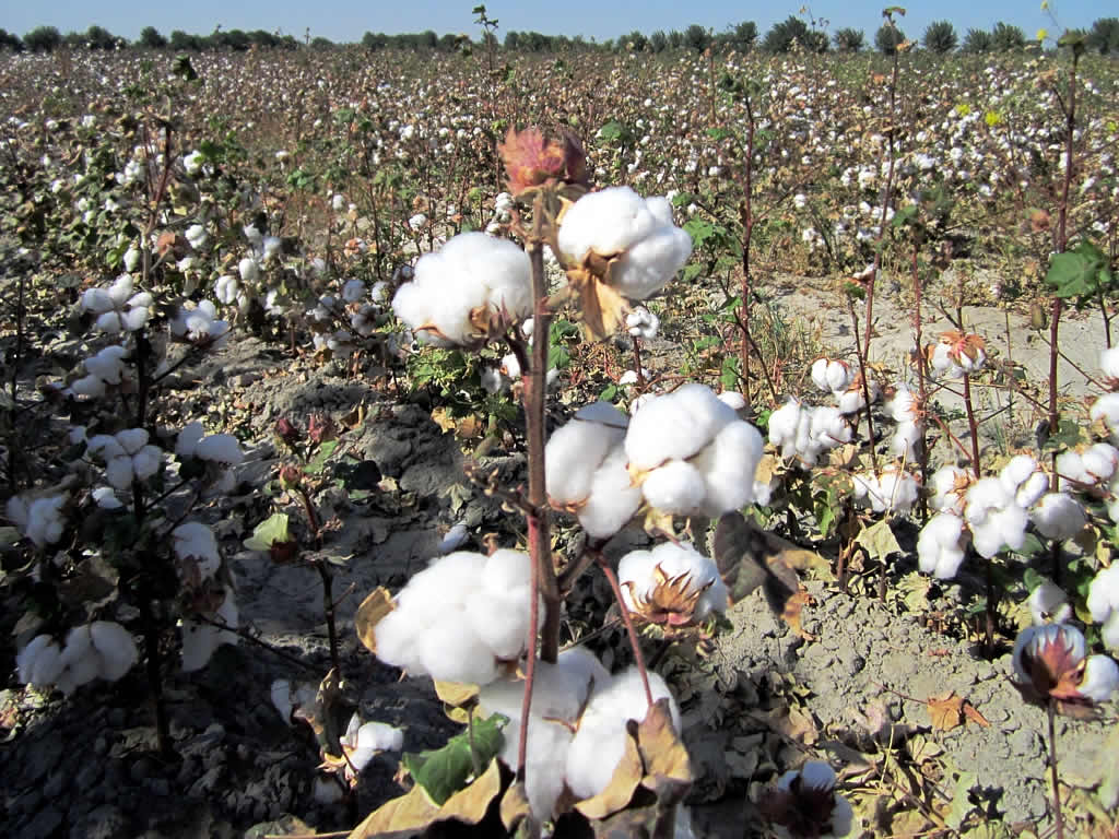 Soviet irrigation projects in the 1960s allowed cotton to become Uzbekistan's largest agricultural crop, at the expense of the Aral Sea.